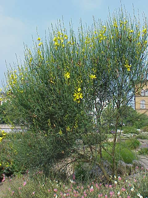 Species: Spartium junceum Family: Fabaceae Image No. 4